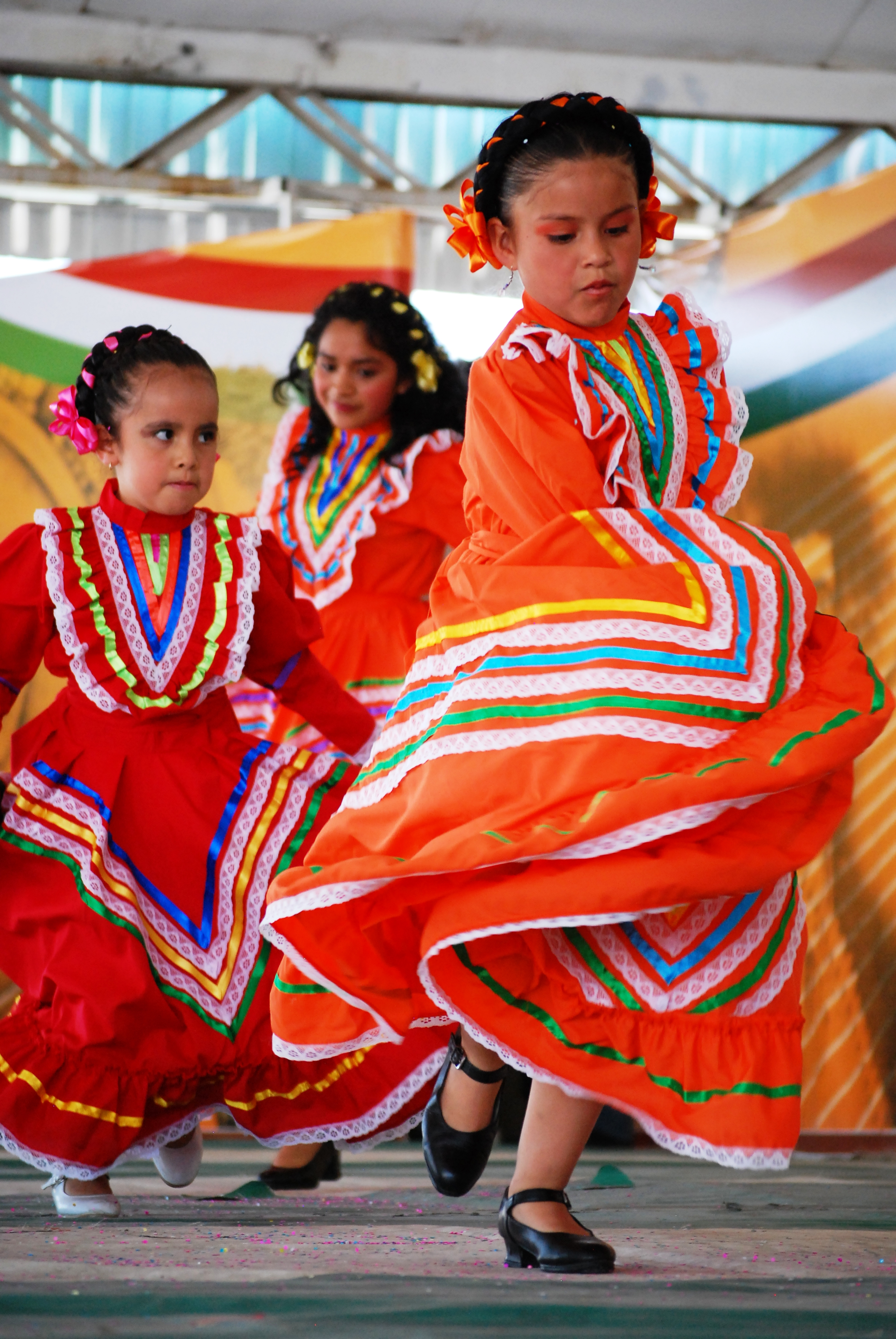 Girls performing Mexican folk dance at the Feria del Caballo in Texcoco, Mexico State, Mexico